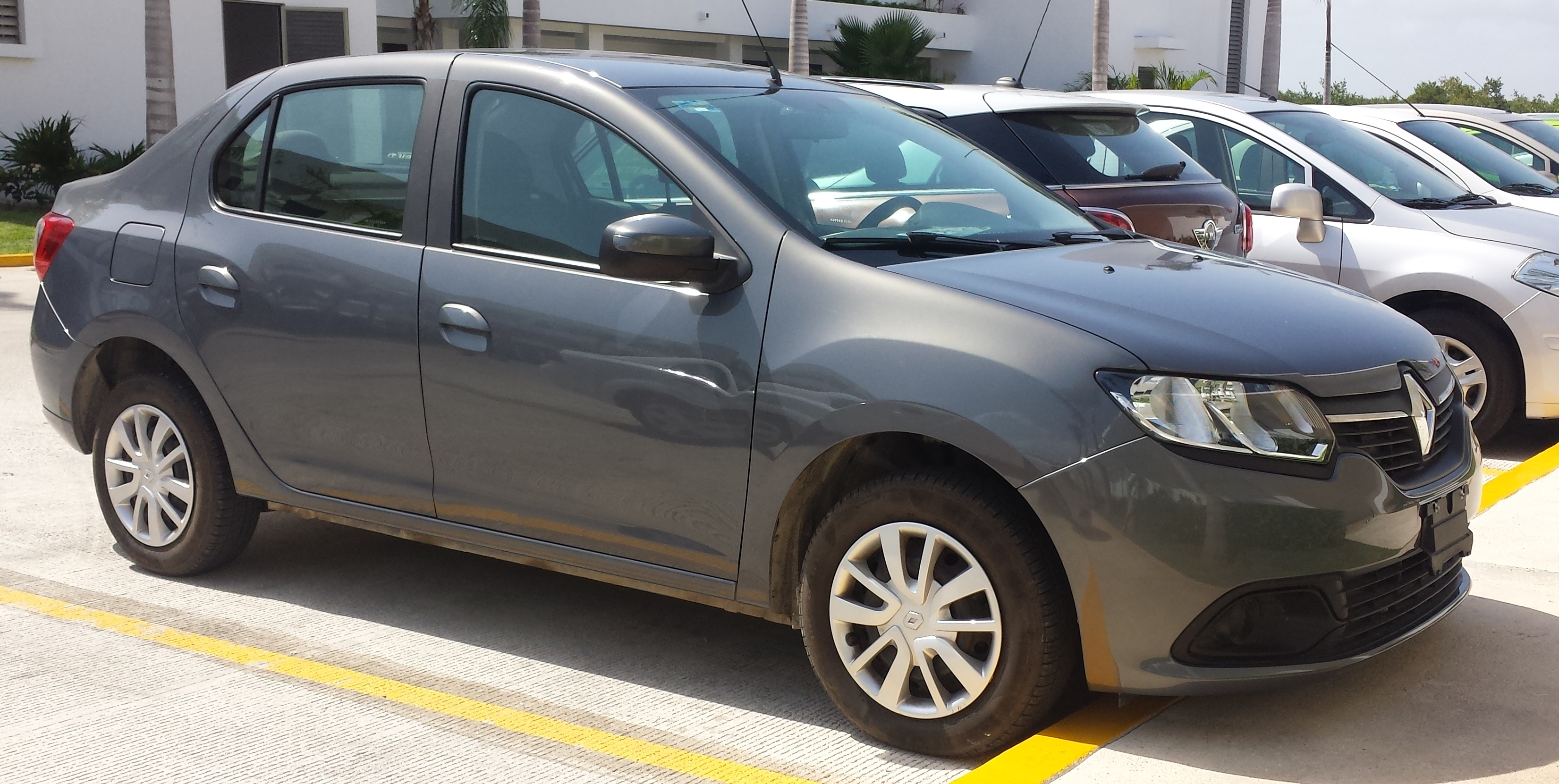 Renault Logan sedan in Mexico